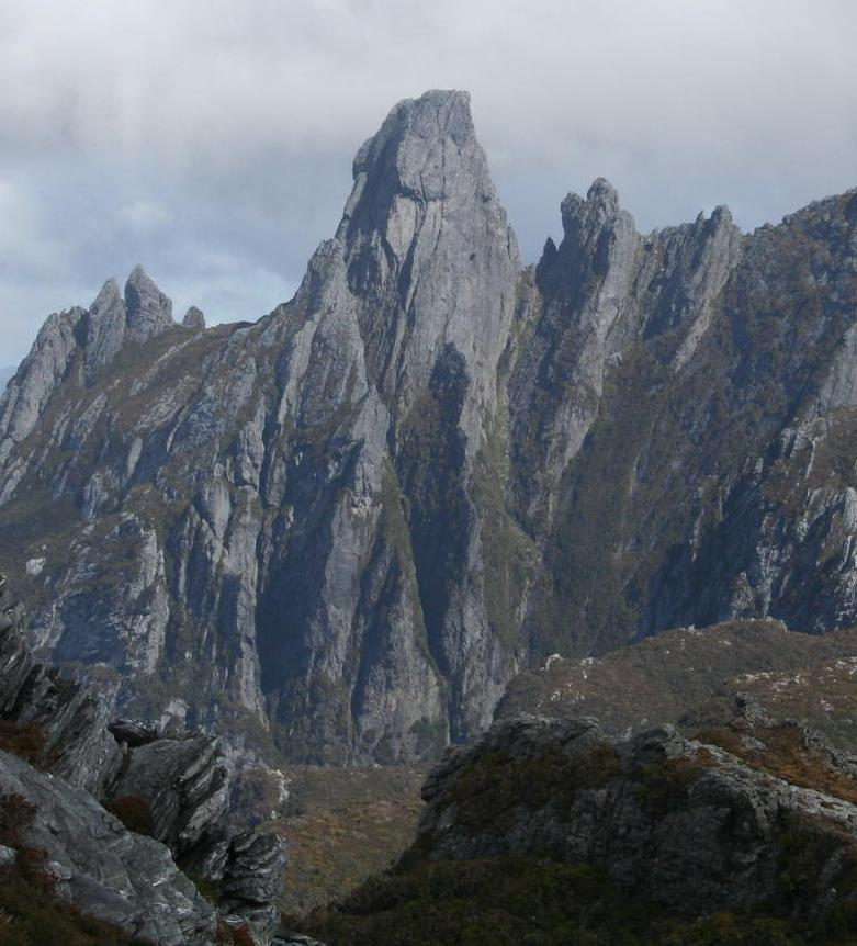 Federation Peak, South West Tasmania, Australia from the Eastern Arthur range, near Goon Moor.